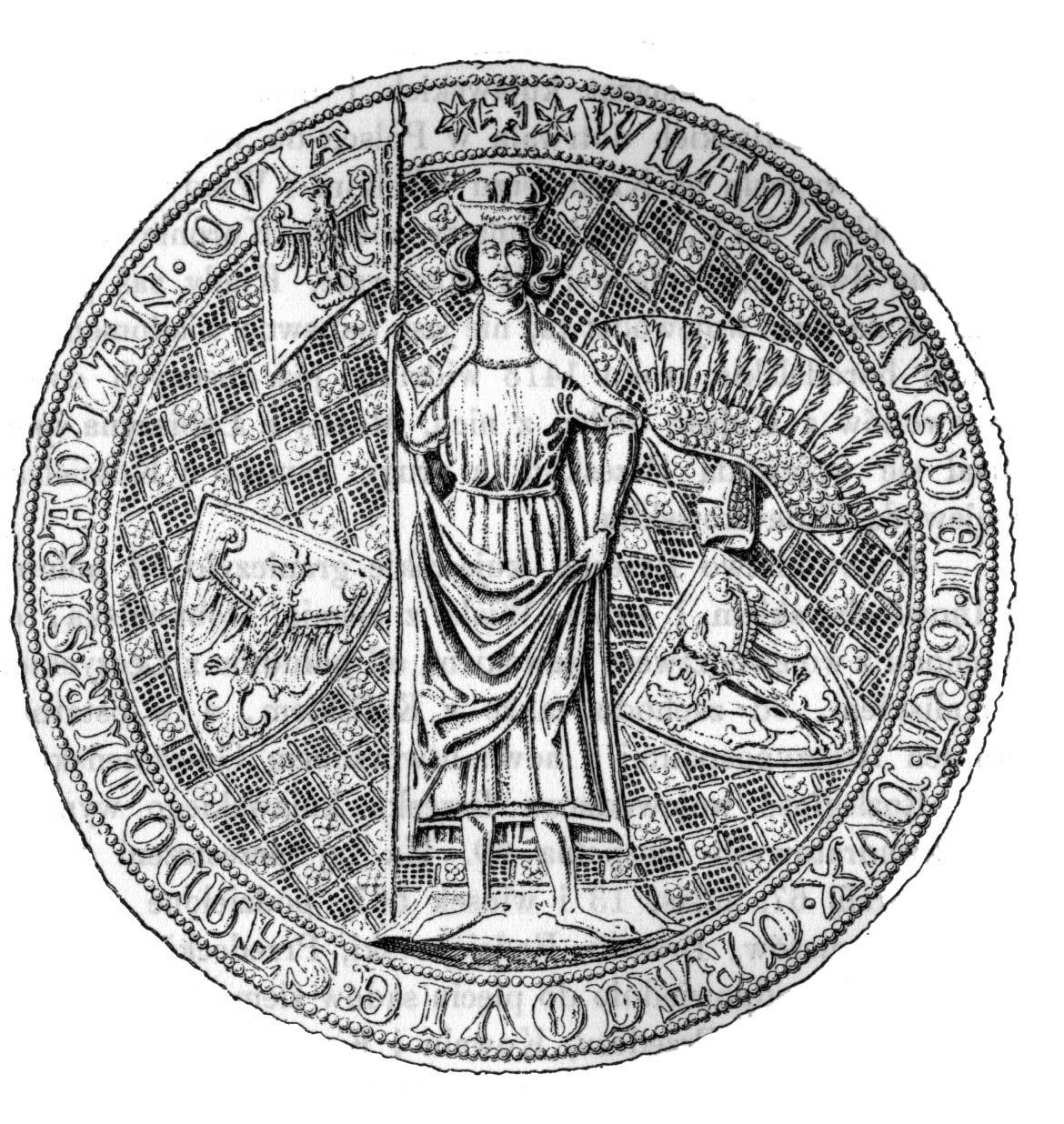 The seal of Ladislaus I of Poland